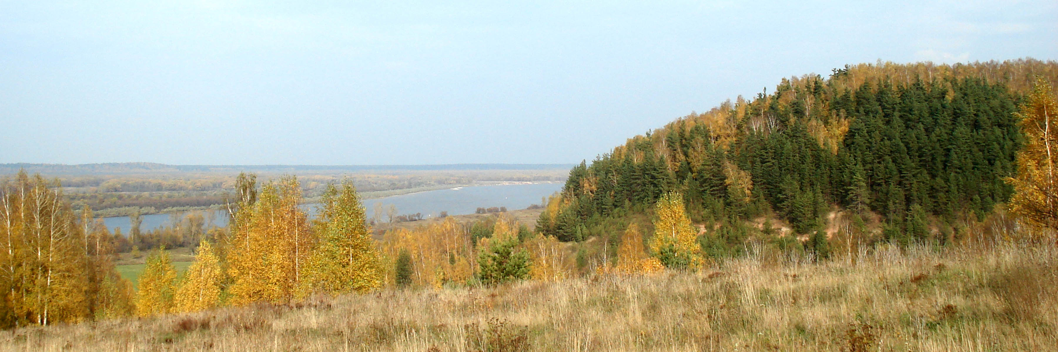 View on the Oka river near the village of Pozhoga. Nizhegorodskaya oblast. The Peremilovsky Mountains is on the right.